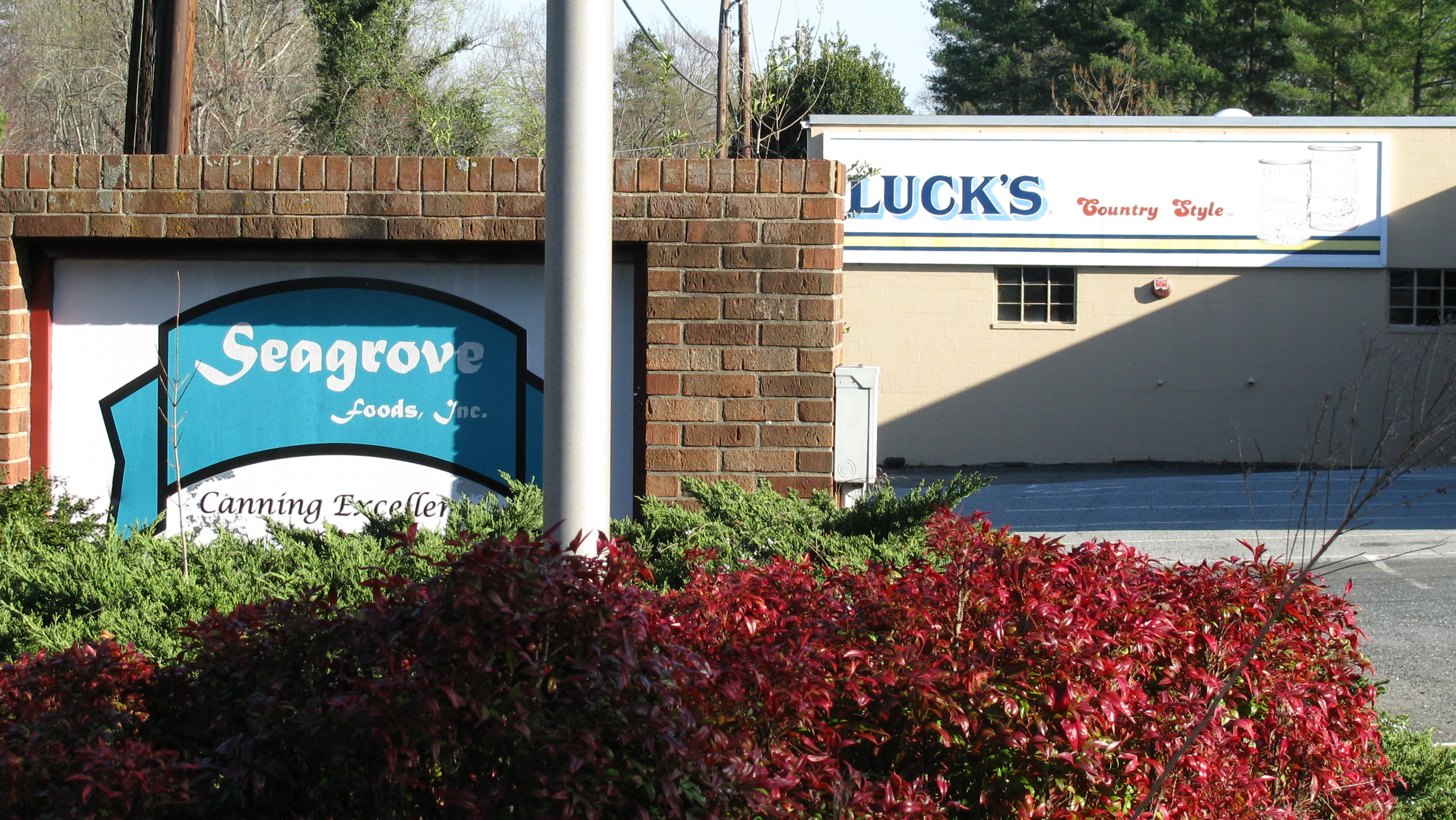 A photograph of the Luck's Cannery in Seagrove, North Carolina, now operated by Seagrove Foods, Inc.